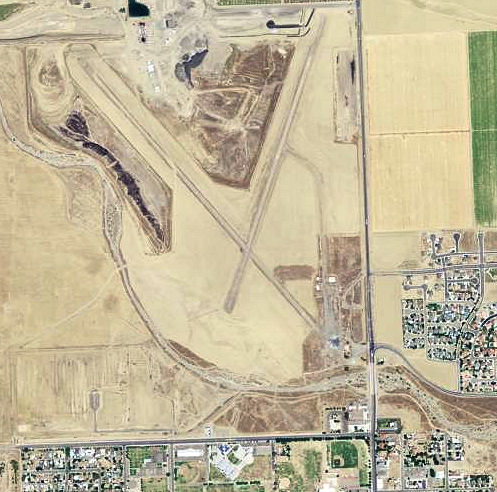 USGS digital orthophoto of Coalinga Municipal Airport (Old) — in Coalinga, Fresno County, California.